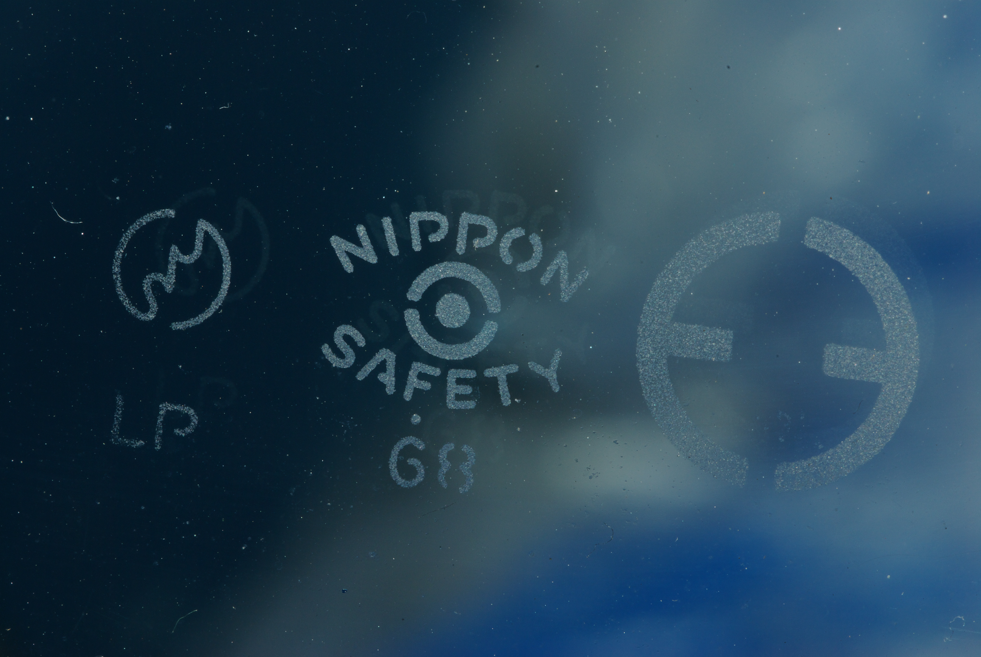 The carved seal of the windshield of Mazda, T600-type for 1,968 years. It is a logo of Toyo Kogyo, a logo of Nippon Sheet Glass, the carved seal indicating the Japanese Industrial Standards conformity LP (laminated glass) from the right.